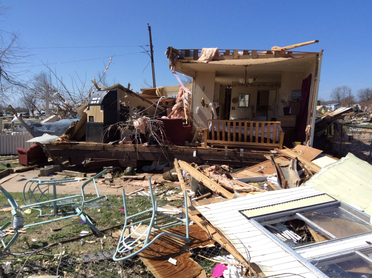 This home was destroyed by an EF2 tornado near Sand Springs, Oklahoma on March 25, 2015.